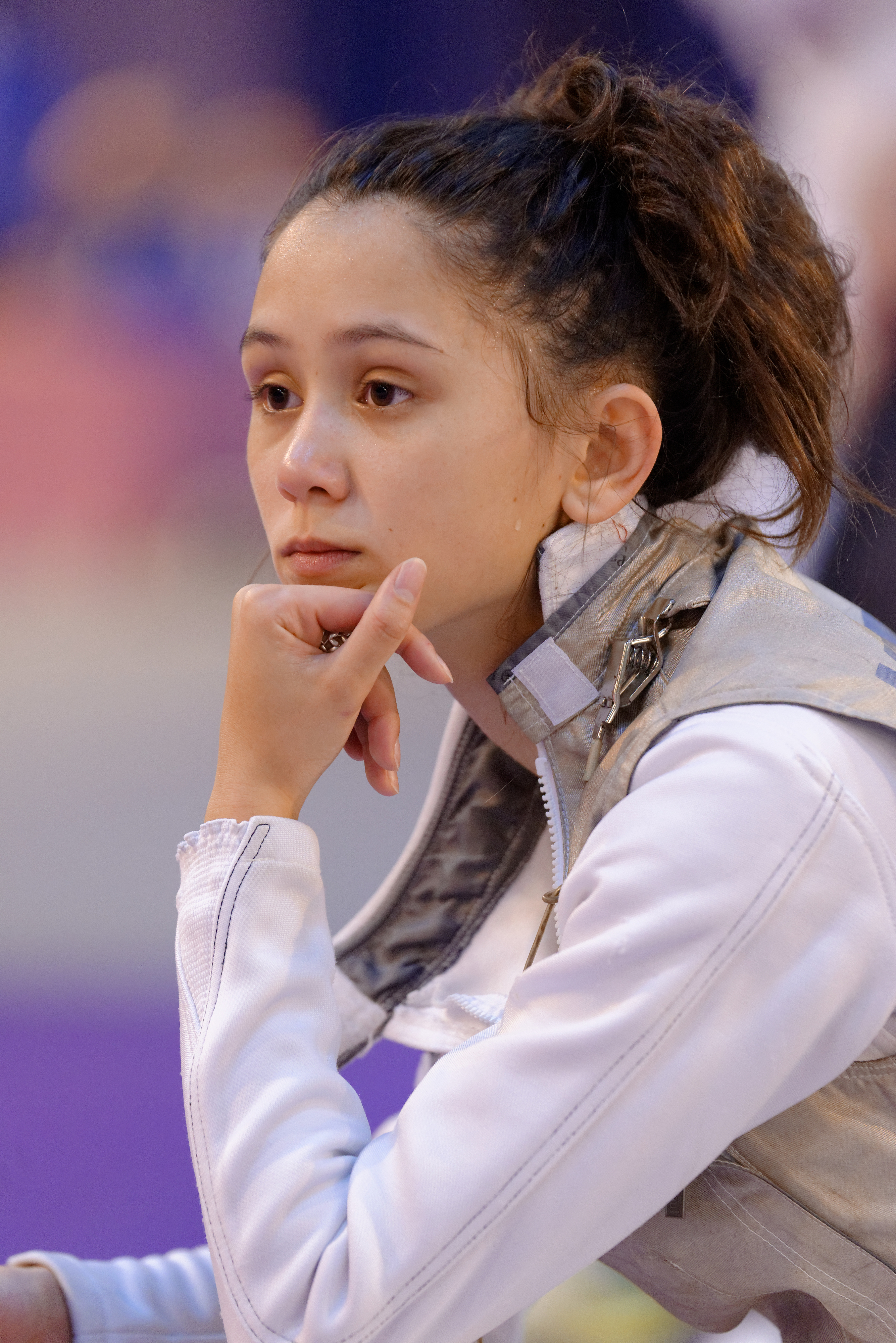 Lee Kiefer of the United States at the Saint-Maur Women's Foil World Cup.